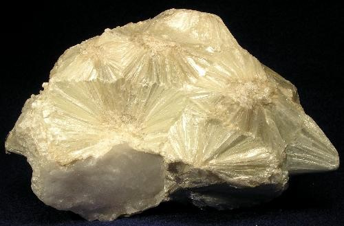 Pyrophyllite Locality: Hillsboro District, Orange County, North Carolina, USA (Locality at ) Size: 11 x 7.3 x 6.6 cm. Superb large specimen of radial crystals of Pyrophyllite. The fantastic luster is pearly and bright, almost iridescent. The radial crystals range up to about 4 cm across, and are plentiful across the specimen.